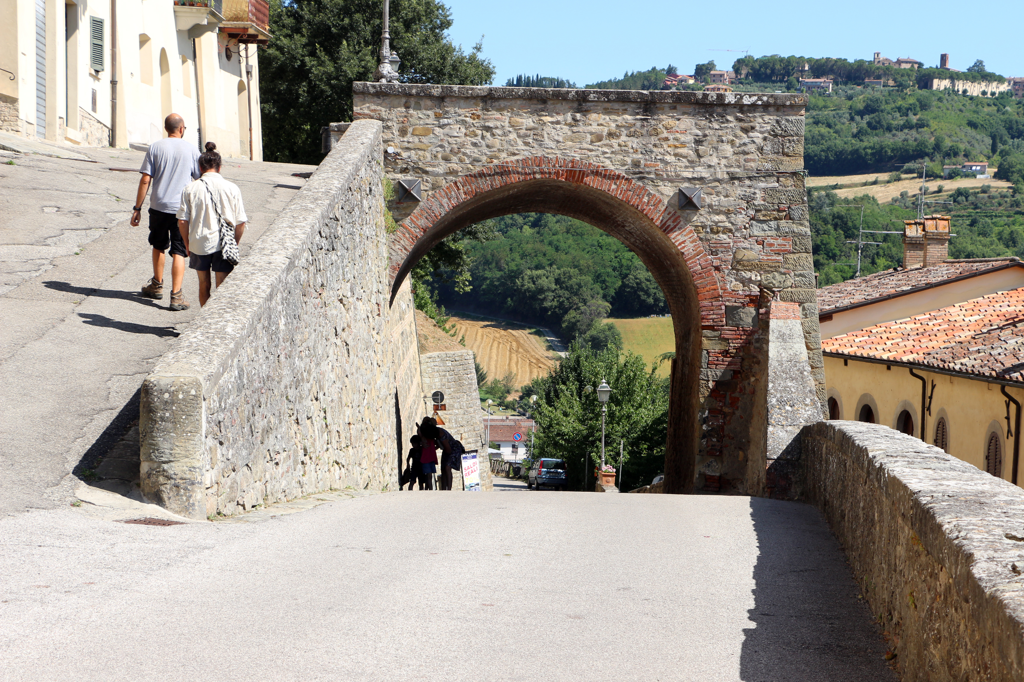 Monterchi